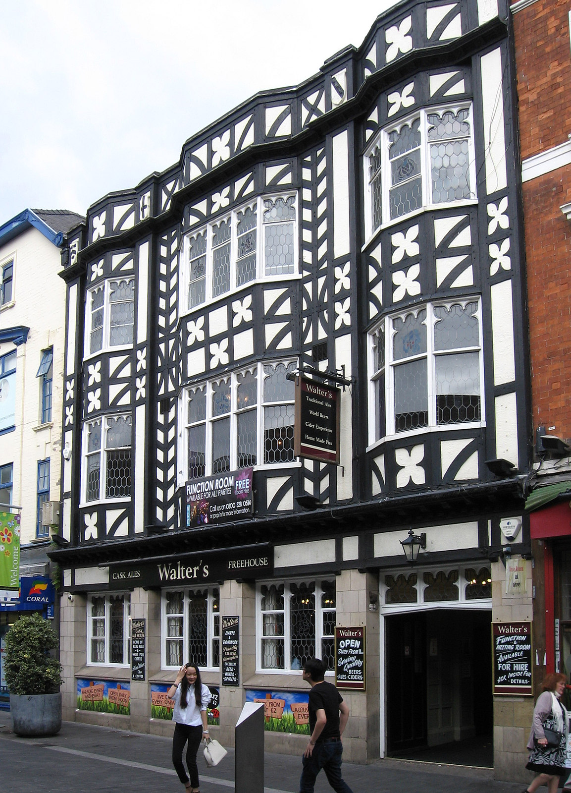 Grimsby The Pestle & Mortar, 5-6 Old Market Place - Walters